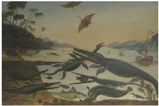 Robert Farren created this large oil painting based on Henry De la Beche's 1830 water color Duria Antiquior at the request of Adam Sedgwick who may have used it as a educational tool for geology lectures.